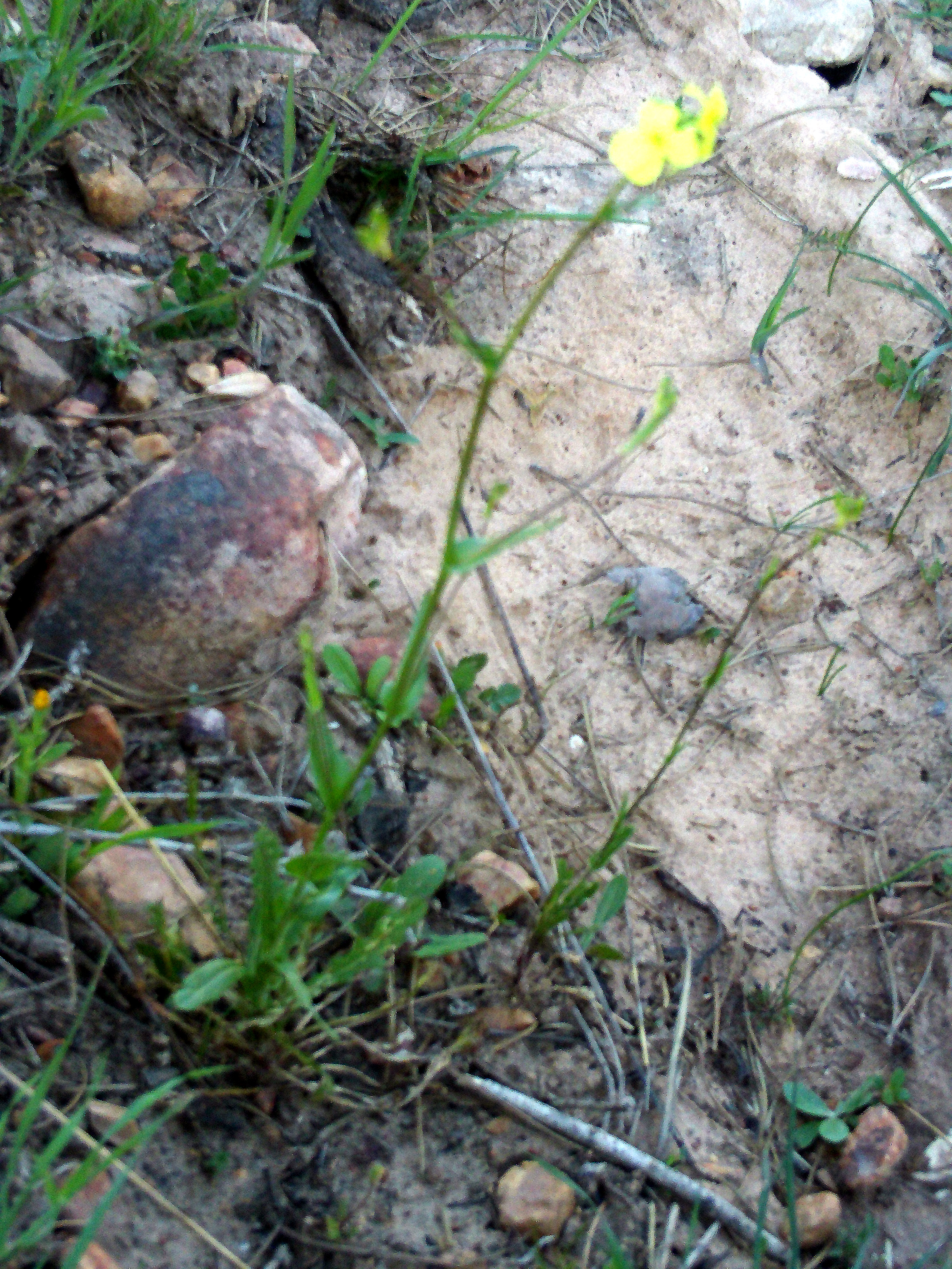 Biscutella auriculata Habitus, Dehesa Boyal de Puertollano, Spain